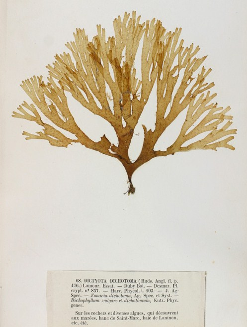 « Dictyota dichotoma » = Dictyota dichotoma